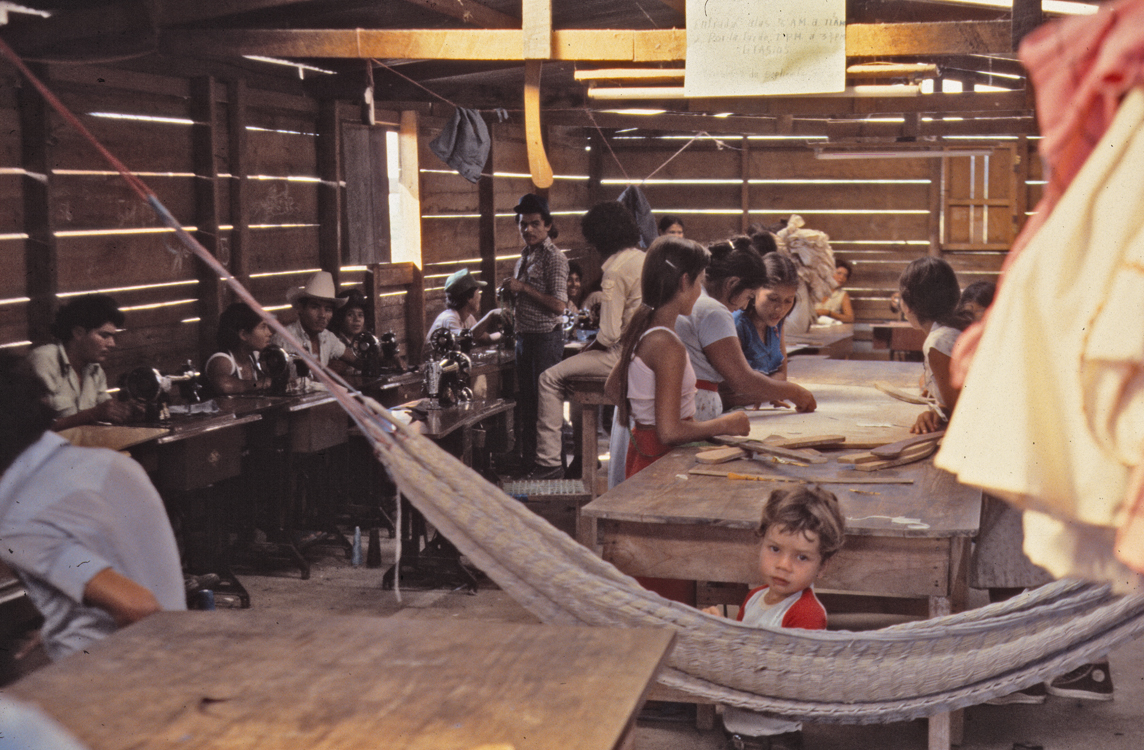 The first repatriation of refugees from the Mesa Grande camp in Honduras, returning to El Salvador through the El Poy border in October 1987